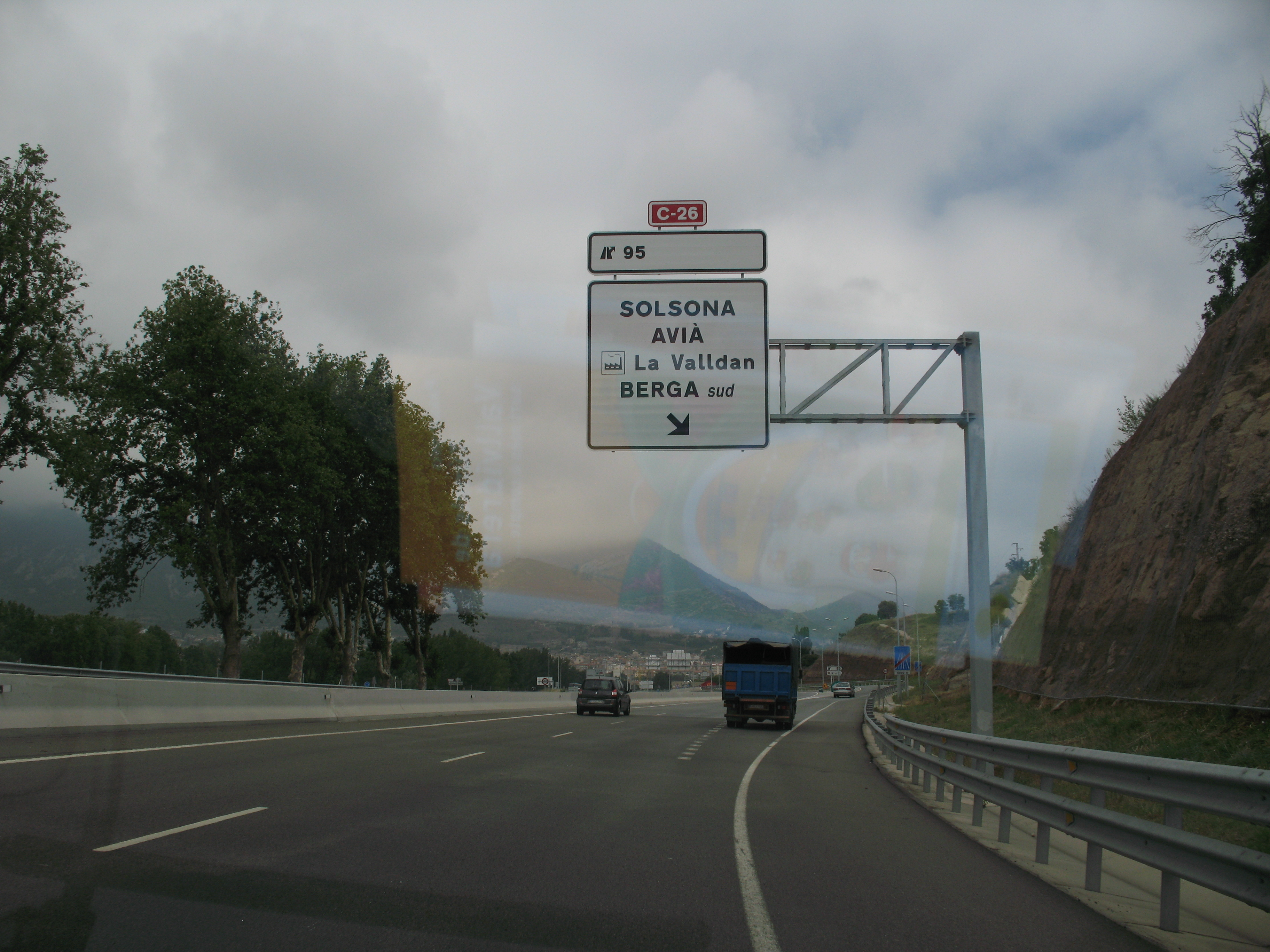 End's expressway on the C-16 at Berga.